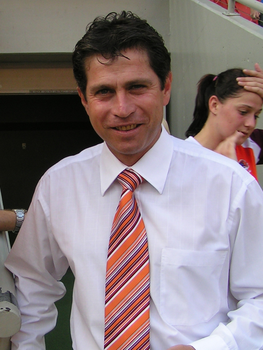 Frank Farina, former coach of the Australian national soccer team